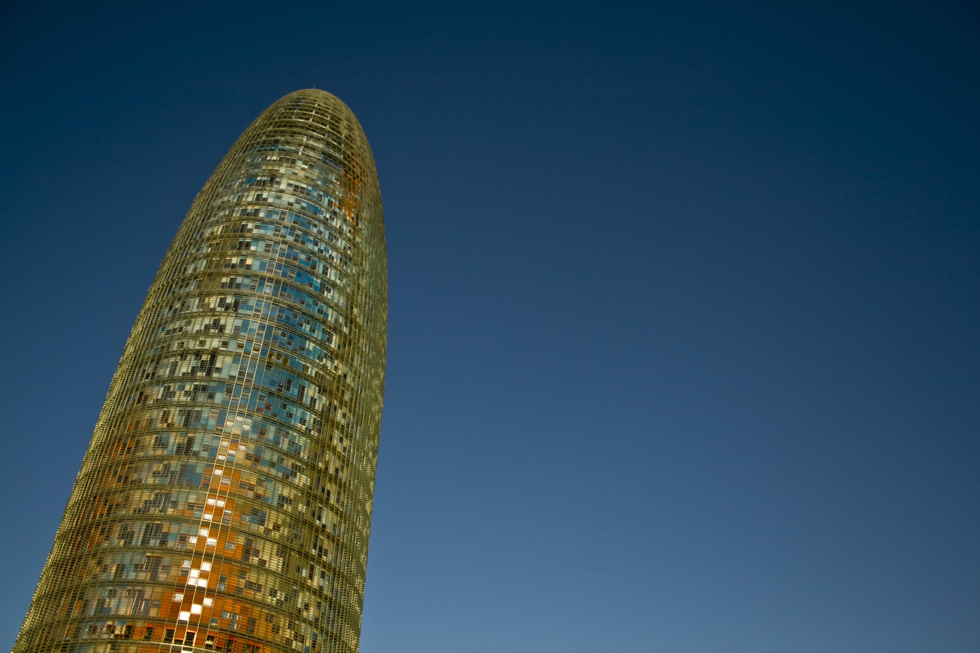 AGBAR Tower against blue sky.